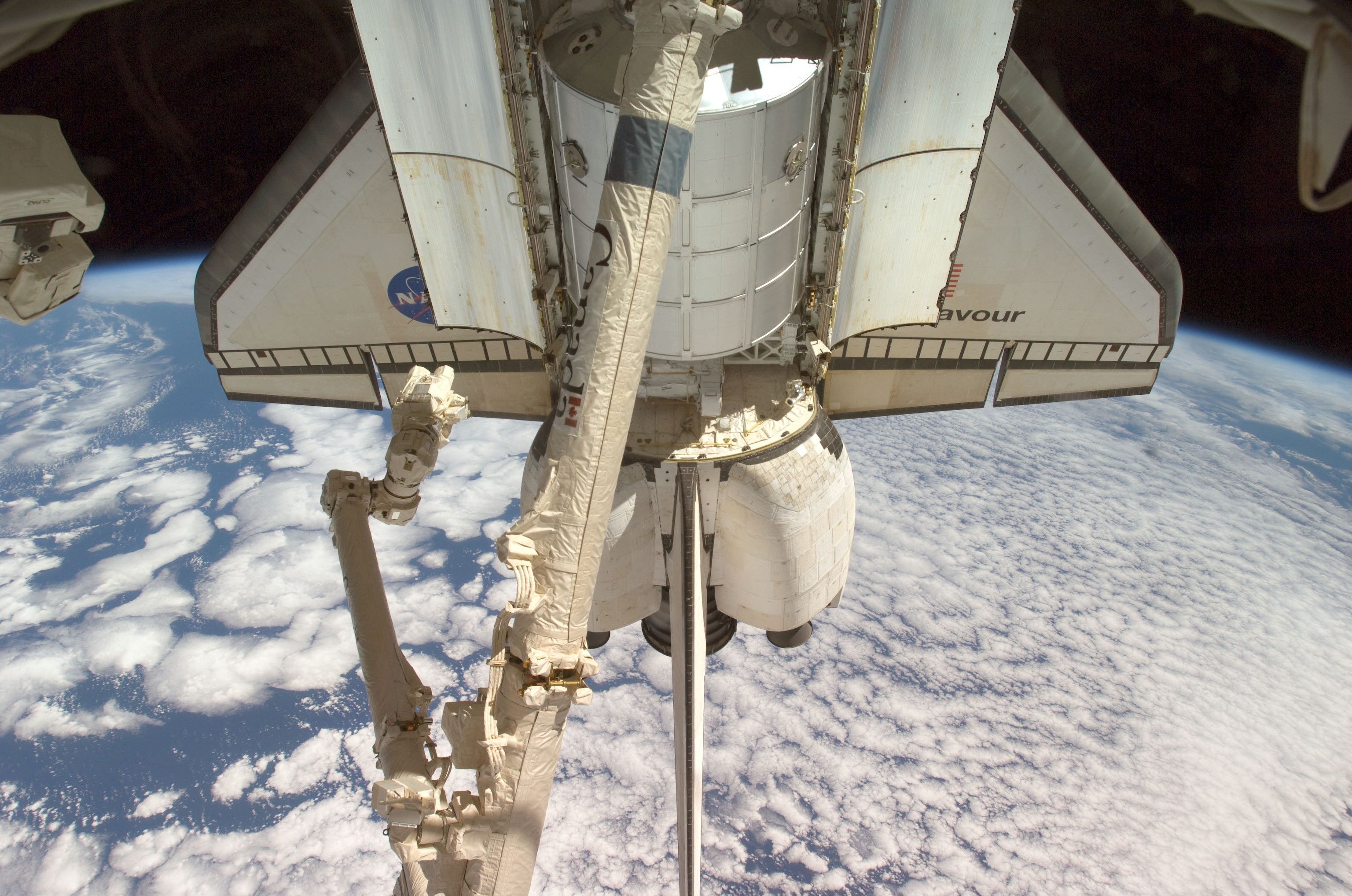 ISS018-E-008788 (16 Nov. 2008) --- Space Shuttle Endeavour (STS-126) and the International Space Station's robotic Canadarm2 (foreground) are featured in this view while Endeavour is docked with the station. A blue and white Earth and the blackness of space provide the backdrop for the scene.